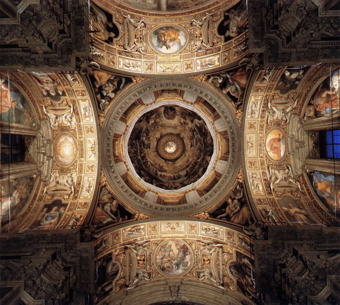 The Assumption of Mary was painted inside the cupola by Ludovico Cardi nicknamed Il Cigoli . Above the clouds, the Blessed Virgin is transported towards the Heavens. The moon underneath her feet was painted exactly as it had been revealed through the telescope of Galileo, who was a friend of Cigoli. The Apostles, some seated while others are standing, gaze at the triumphant Mary as she holds a queen's scepter in her hand. Before the Virgin, who has crushed the serpent under her foot, the heavens open and the choirs of angels rejoice. From this multitude, a smaller group of cherubs draws closer to Mary, and clothed in the clouds they form a throne with their golden wings. Other cherubs blow horns, play trumpets and scatter flowers. Above them, we can see a myriad of angelic spirits, whose heads alone are fully visible.